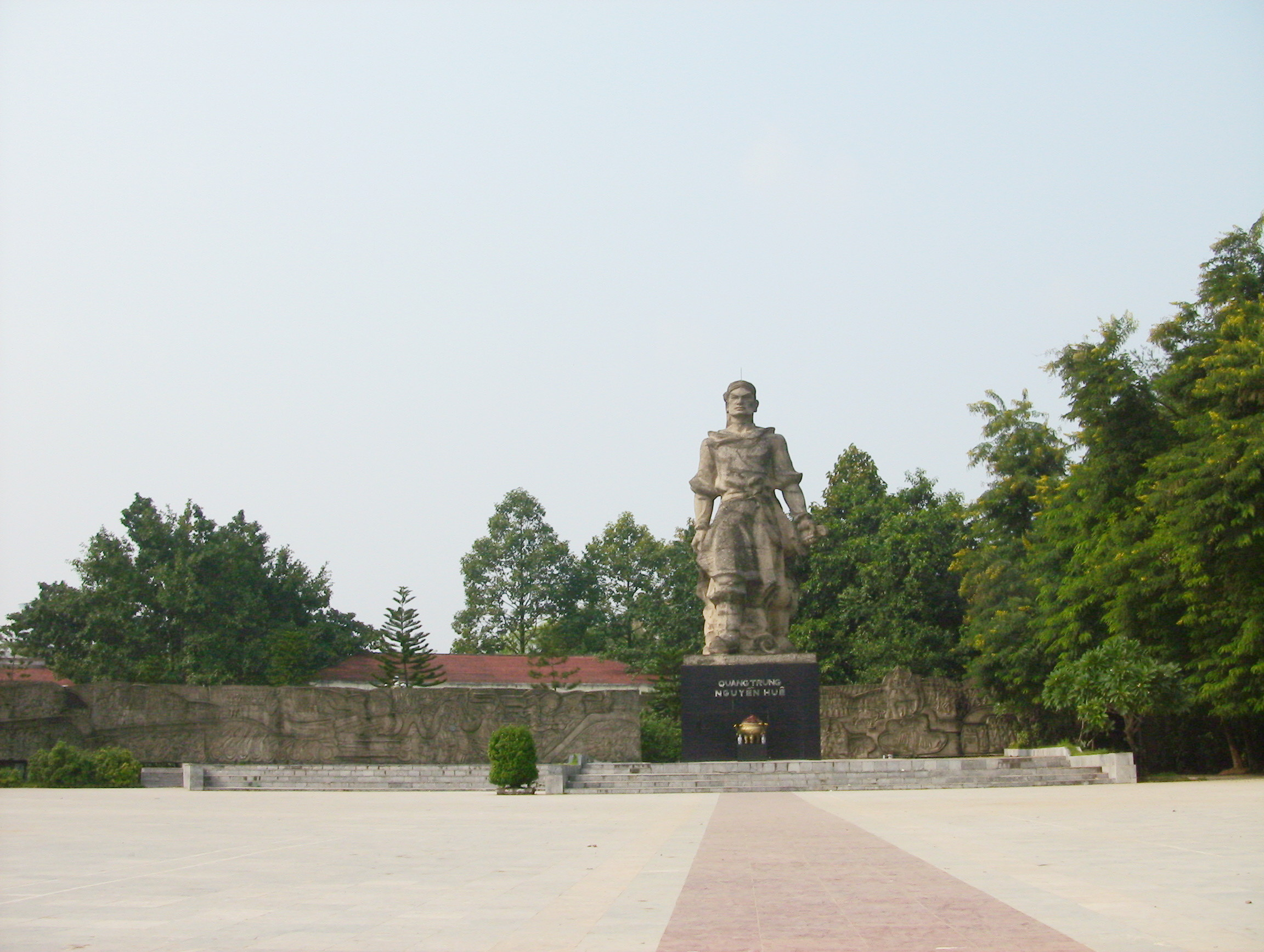 The monument of Quang Trung Emperor in Hà Nội, Việt Nam